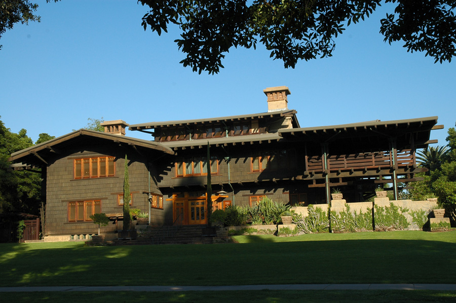 Gamble House, Pasadena, California, by Charles and Henry Greene, 1908 - after 2005 restoration